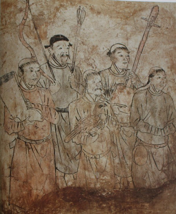 Preparing for hunting, Mural from Tomb in Aohan, Liao Dynasty